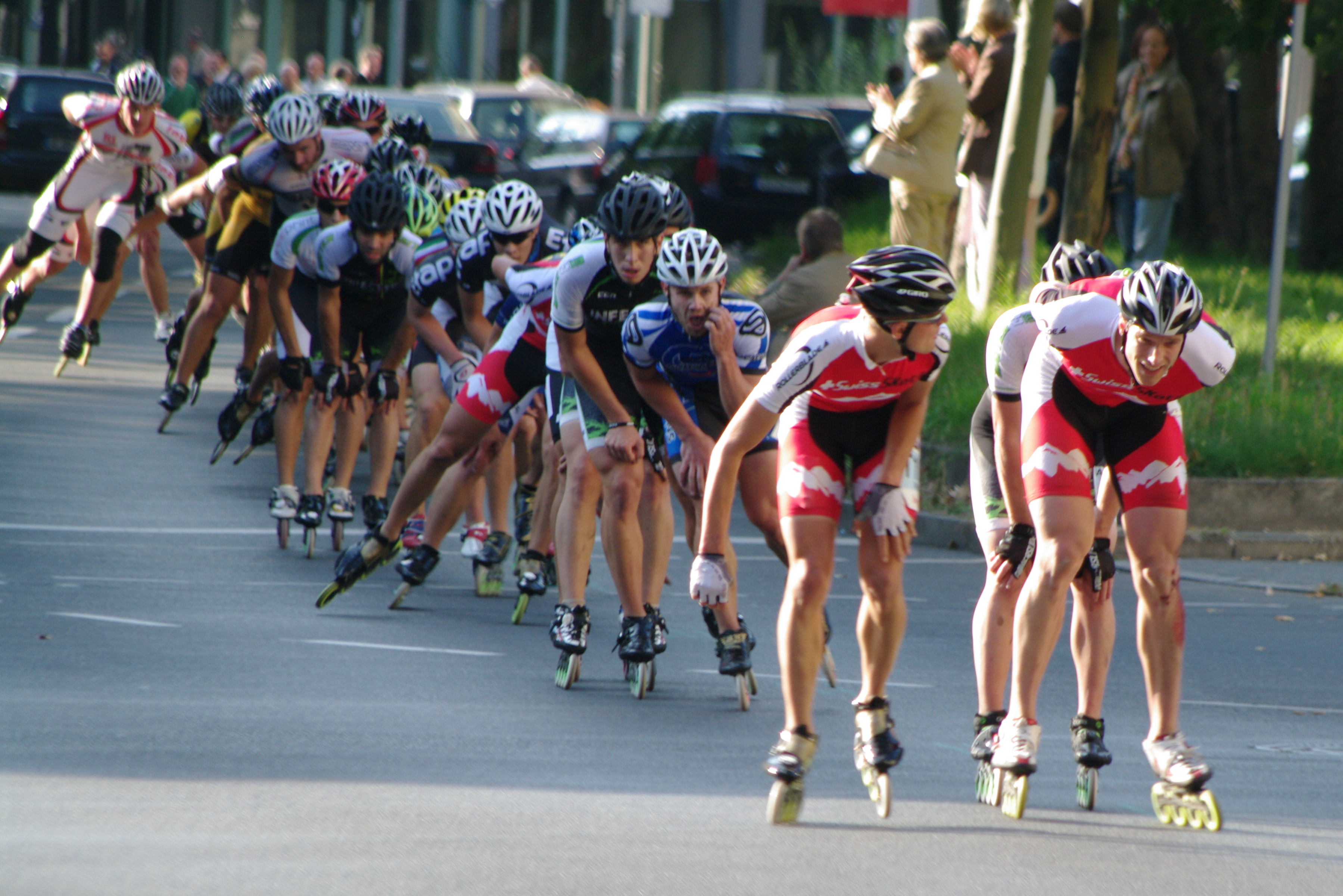 Berlin Inline Marathon 2011. Kilometer 35, Hohenstaufenstraße, group following the leading skater